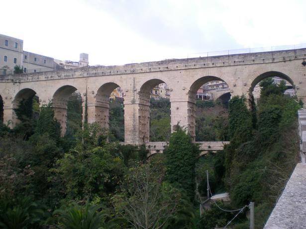 Ponte Vecchio (Old Bridge) of Ragusa in Sicily. Built in 1843 is also called the Bridge of the Cappuccini monks.